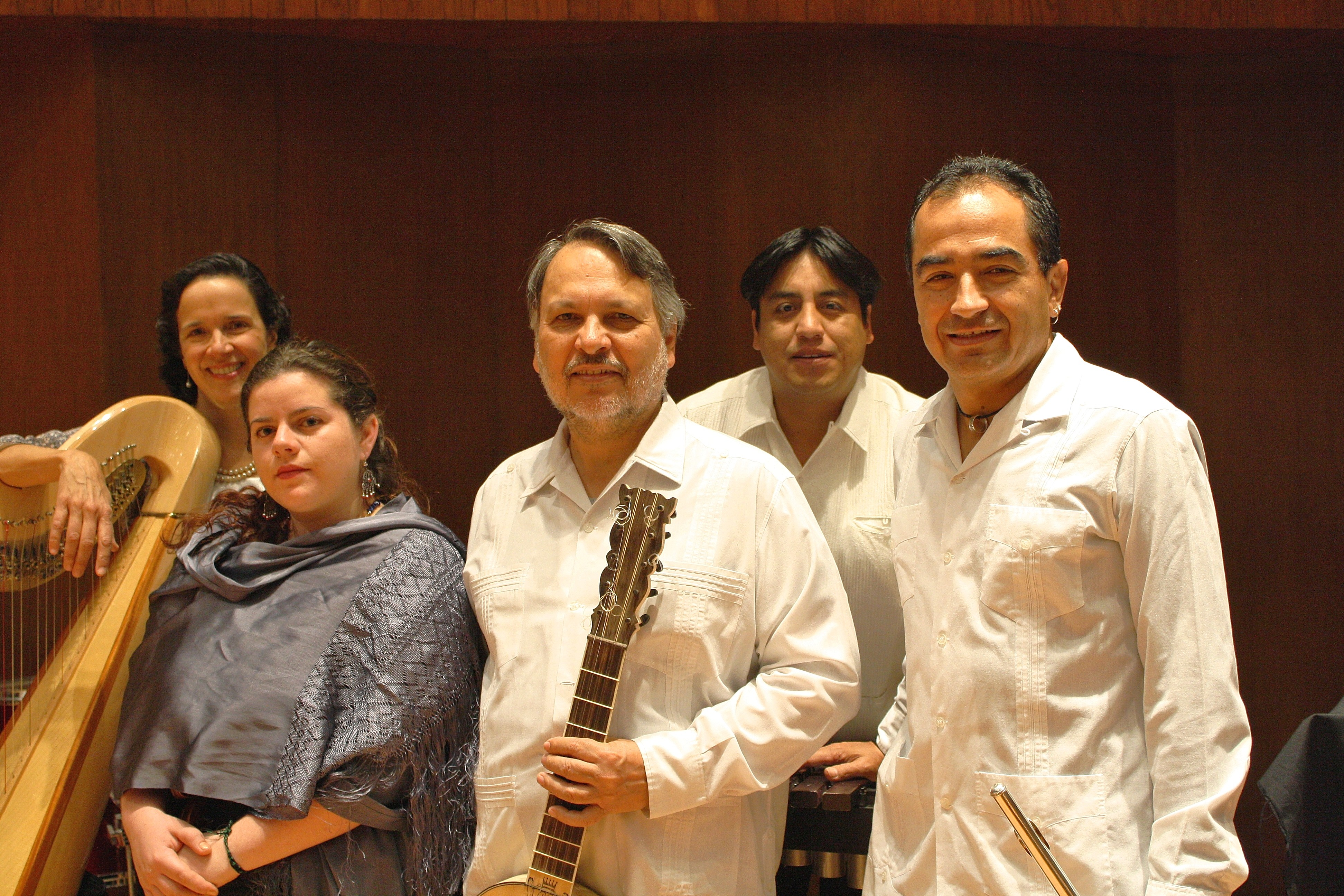 Ensamble Tierra Mestiza